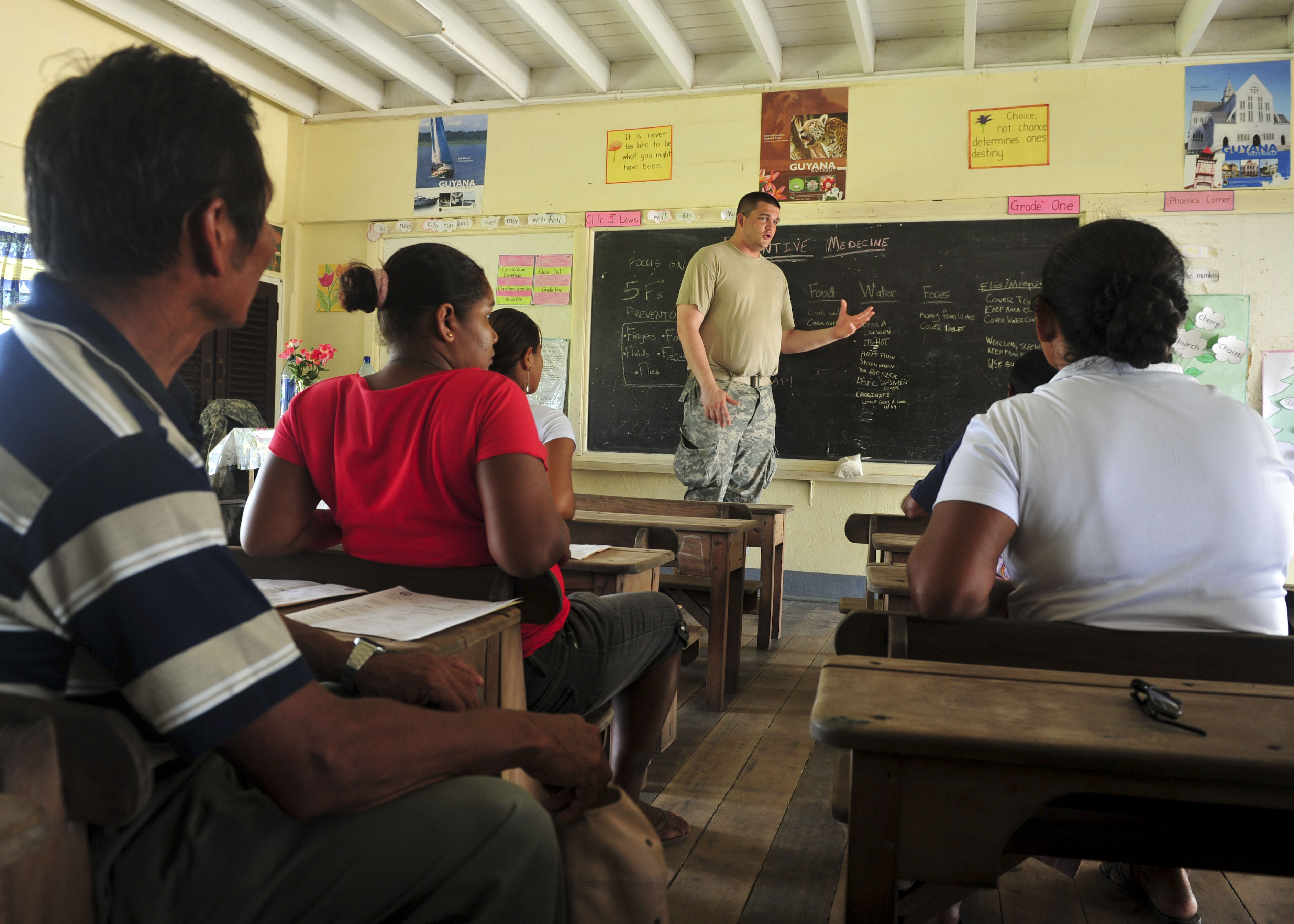 OREALLA, Guyana (Oct. 19, 2010) Army Spc. James Wood, assigned to the 352nd Combat Support Hospital embarked aboard the multi-purpose amphibious assault ship USS Iwo Jima (LHD 7), speaks about hygiene during a Continuing Promise 2010 medical civic action program in Orealla, Guyana. The assigned medical and engineering staff embarked aboard Iwo Jima are working with partner nation teams to provide medical, dental, veterinary and engineering assistance in eight countries. (U.S. Navy photo by Mass Communication Specialist 2nd Class Jonathen E. Davis/Released)